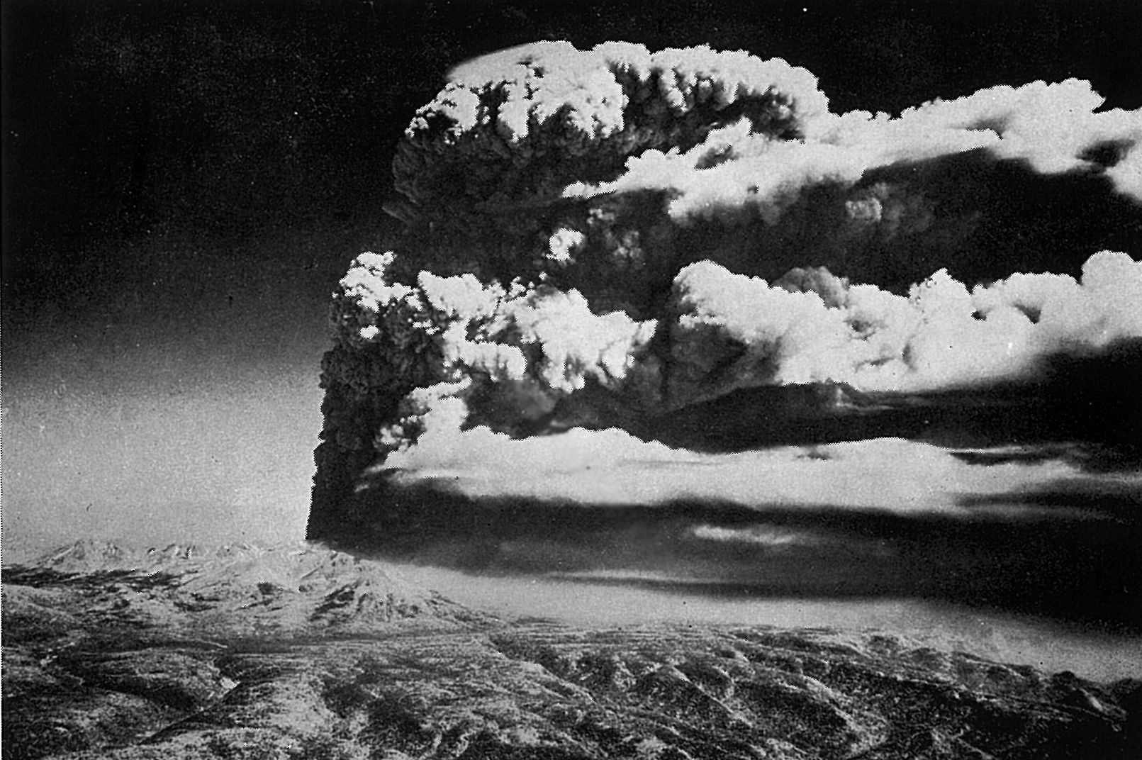 Mount Tokachi 1962 eruption. Taken by Asahi Shimbun.